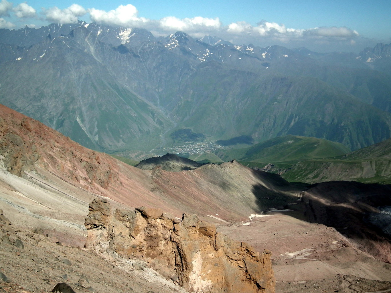 Stepantsminda from Mkinvartsveri (Kazbek) slope.